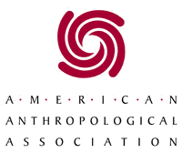 Logo of the American Anthropological Association (AAA).